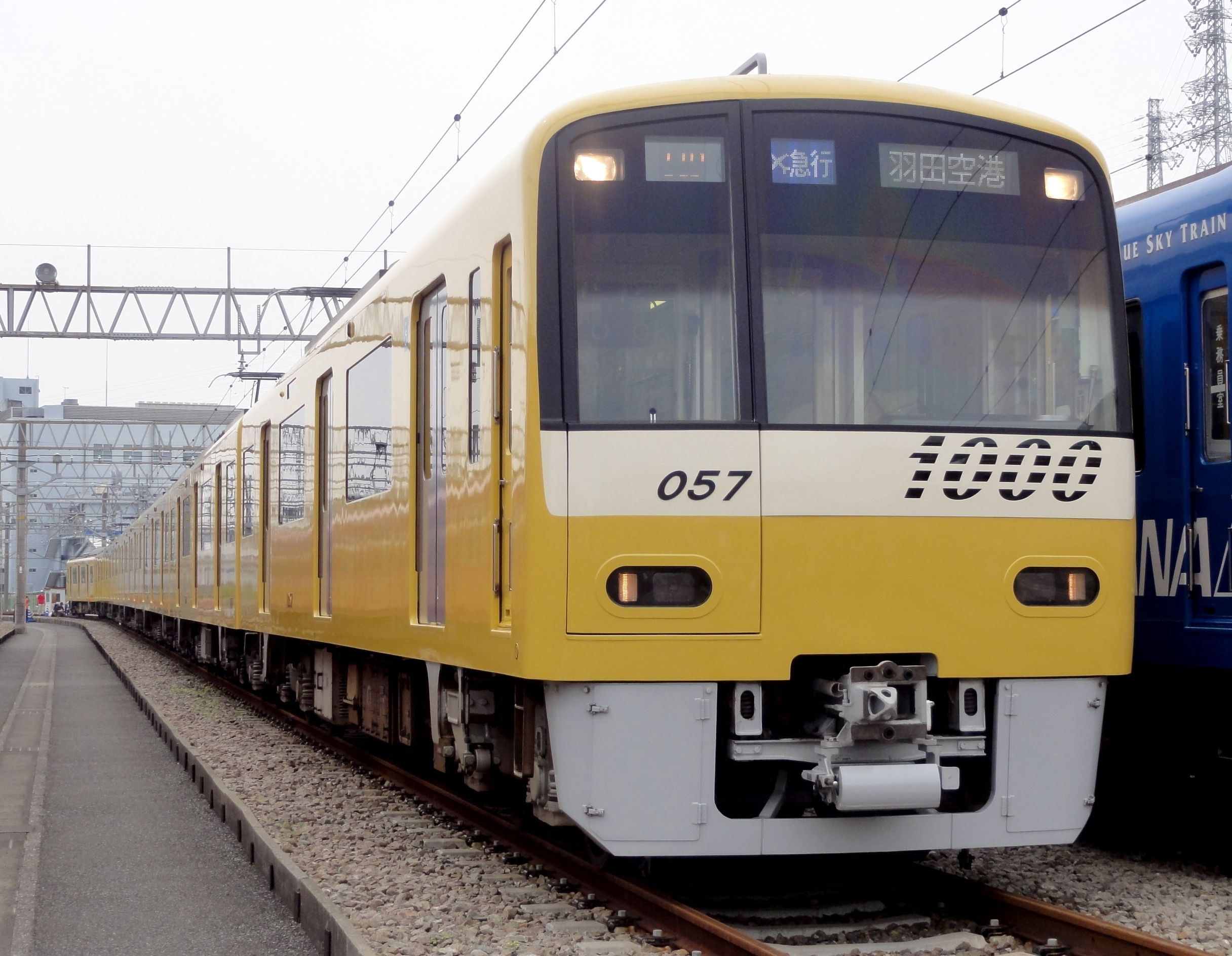 Keikyu 1000 series EMU set 1057 in special "Keikyu Yellow Happy Train" livery at Kurihama Works open day